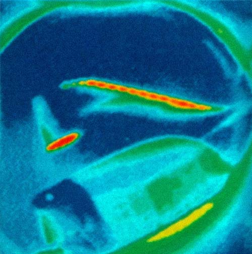 SILTS camera infrared image of the flight surfaces of Columbia during STS-28 reentry.